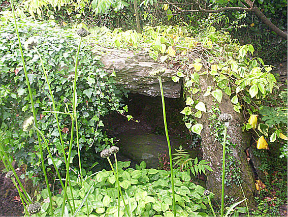 Cae'rarfau Mid-Glamorgan This little beauty is tucked away in the garden of Cae'rarfau House near Creigiau village.